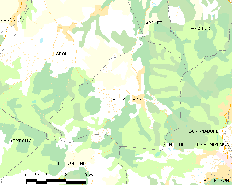 Map of French municipality Raon-aux-Bois